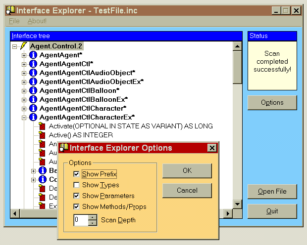 Example of a graphical user interface which was produced with PowerBASIC Froms 1.0. This example application is shipped with PB/Forms as "Interface Explorer (Final)". Upload of this screen shot to Wikicommons and its usage in Wikipedia was permitted by Jeff Daniels from PowerBASIC Inc. (December, 4th 2006 by email).